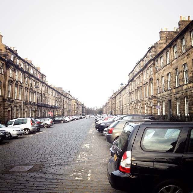 Great King Street, Edinburgh - Picture to illustrate New Urbanism